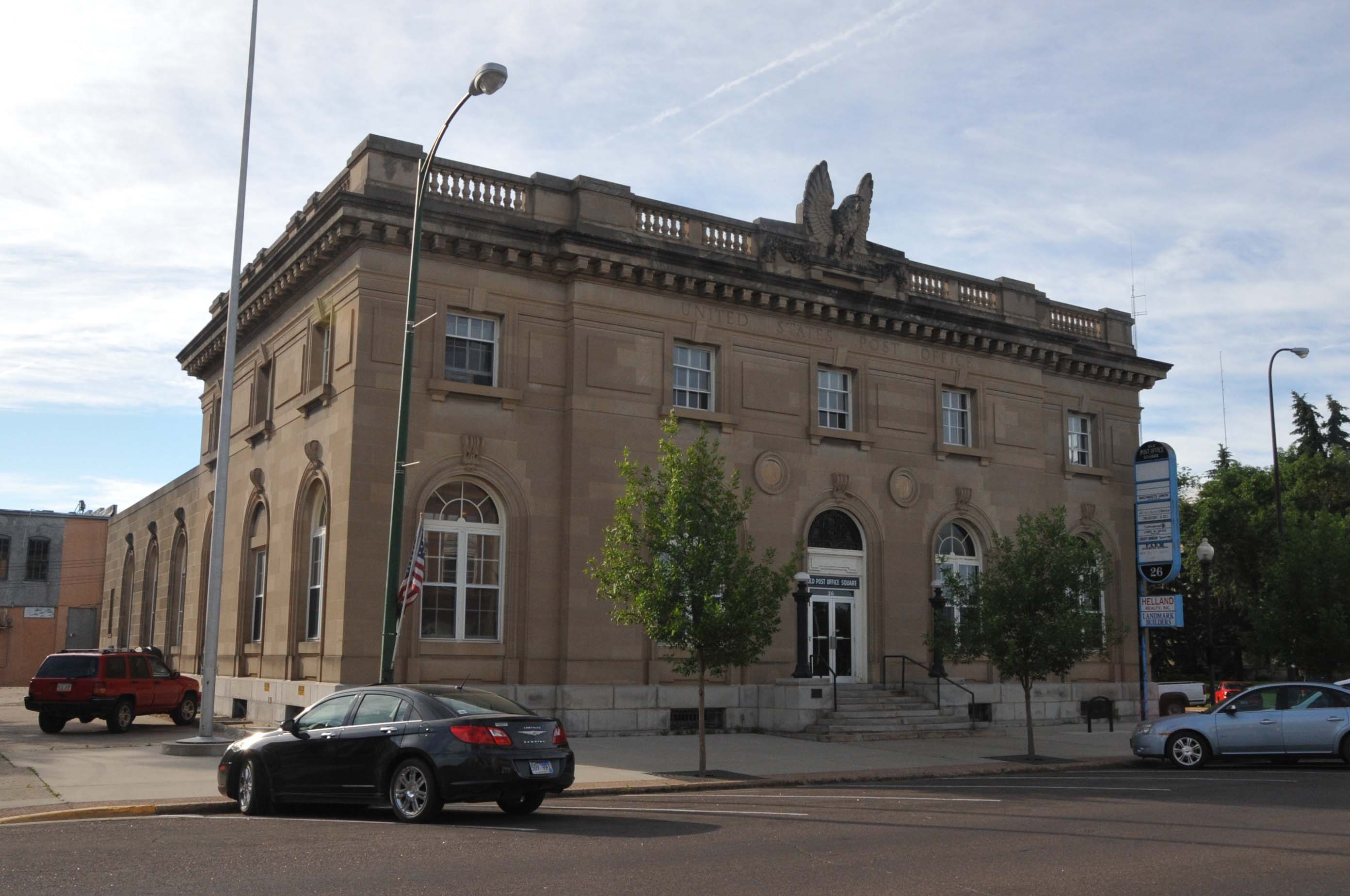 BUILT IN 1908-1909 IN SECOND RENAISSANCE STYLE NOTED FOR ITS BALUSTRATED ROOFLINE WITH THE AMERICAN EAGLE OVER THE ENTRANCE